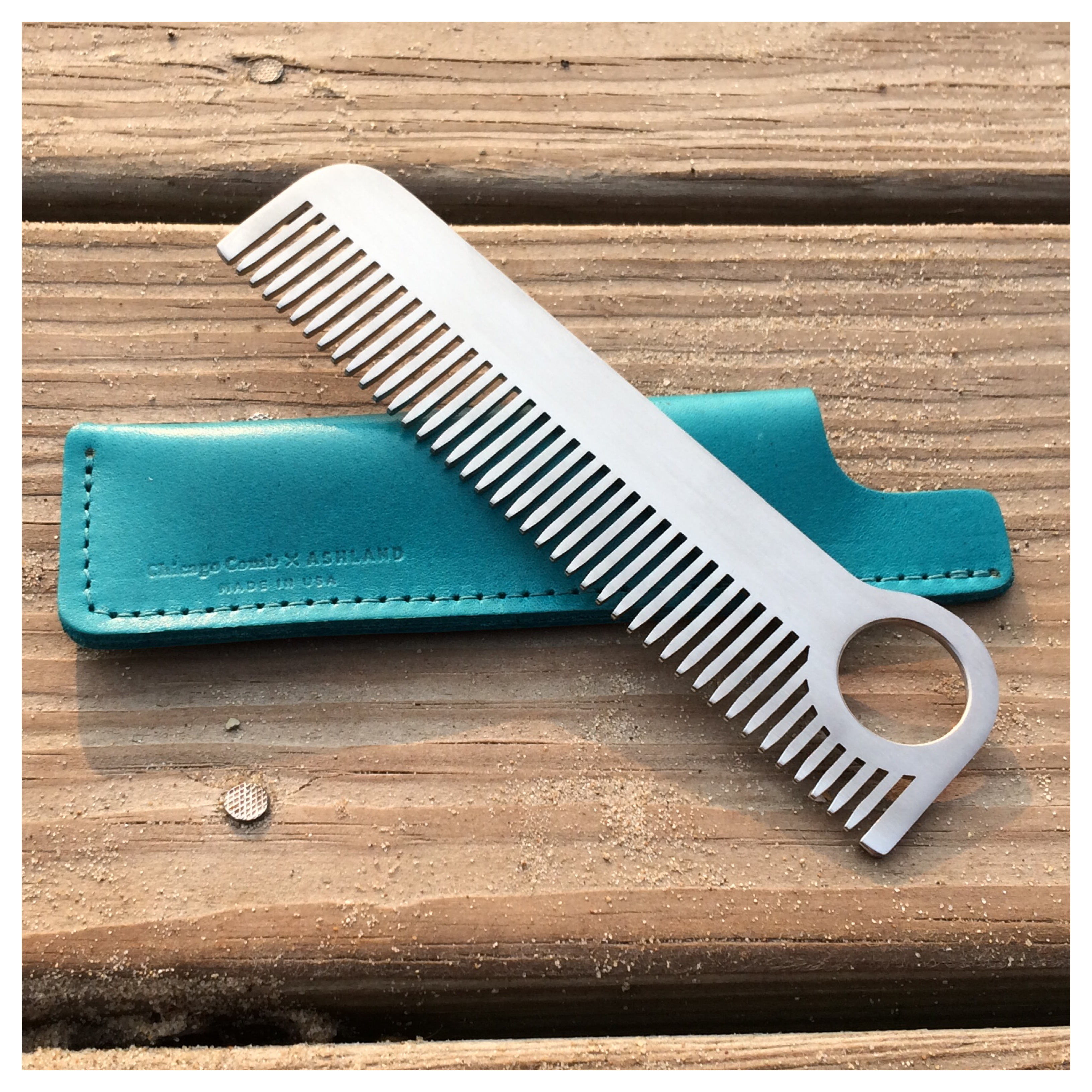 Laser cut and hand finished premium metal comb from Chicago Comb paired with hand crafted teal latigo Horween leather sheath